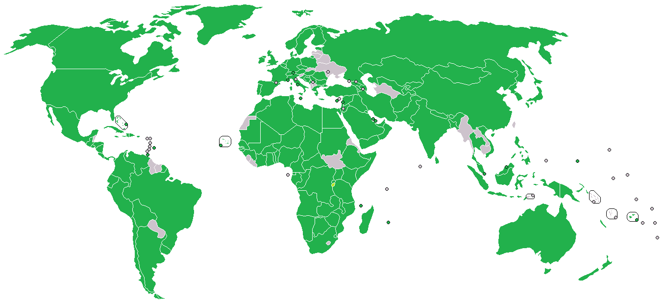 dark green - members[1], light green - signed, but not yet ratified[2]